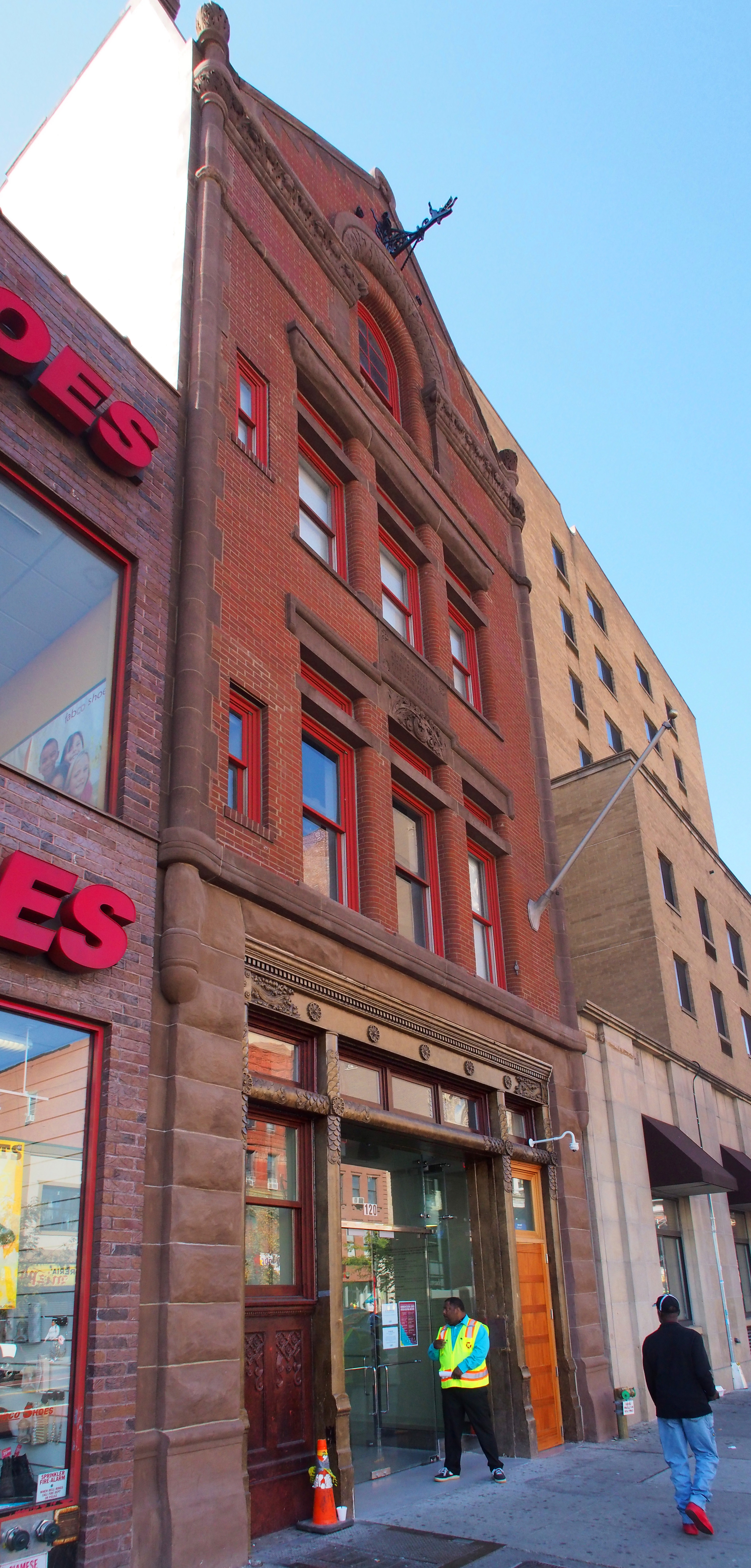 Caribbean Cultural Center African Diaspora Institute - Open Access: This was the grand opening weekend for the museum which happen the same weekend as OHNY. The guard in front made sure everyone had wrist bands for entrance into the building.Site: Caribbean Cultural Center African Diaspora Institute